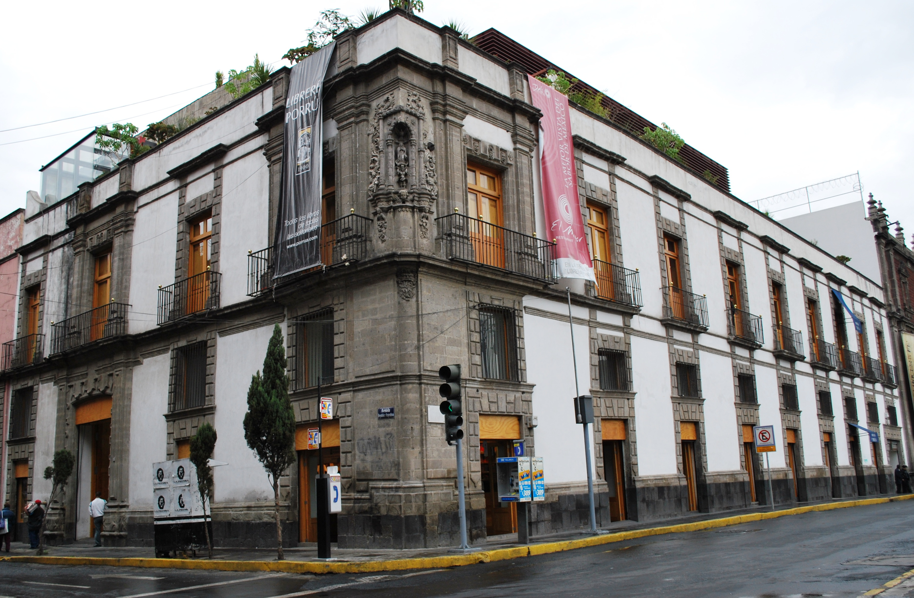 The Porrua Brothers bookstore located at the corner of Republica de Argentina and Justo Sierra Streets in the historic downtown of Mexico City.